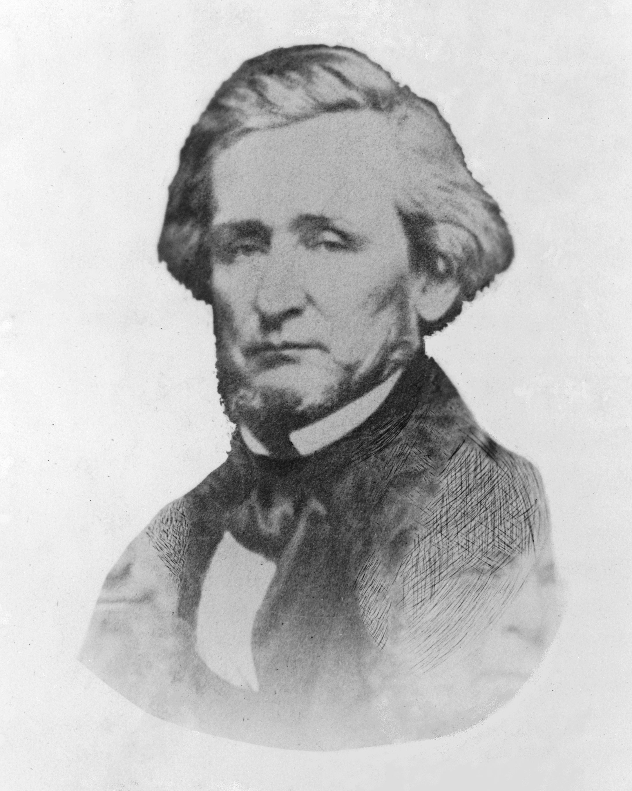 Kentucky politician John Burton Thompson.